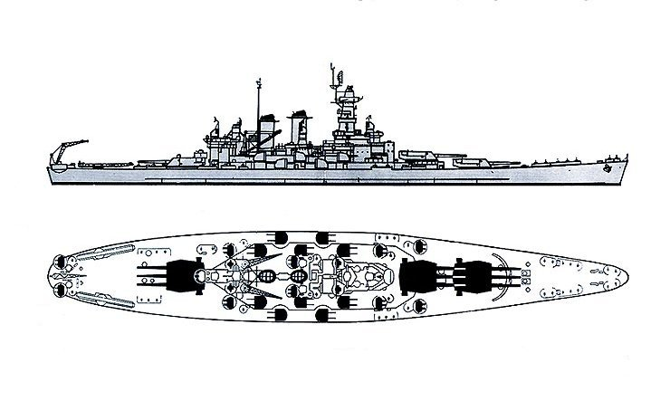 North Carolina class battleship (BB 55-56) outboard profile and plan drawings from a wartime recognition manual, showing the ships (somewhat inaccurately) as fitted late in World War II.